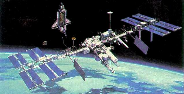 Space Station Freedom (proposed rendition)